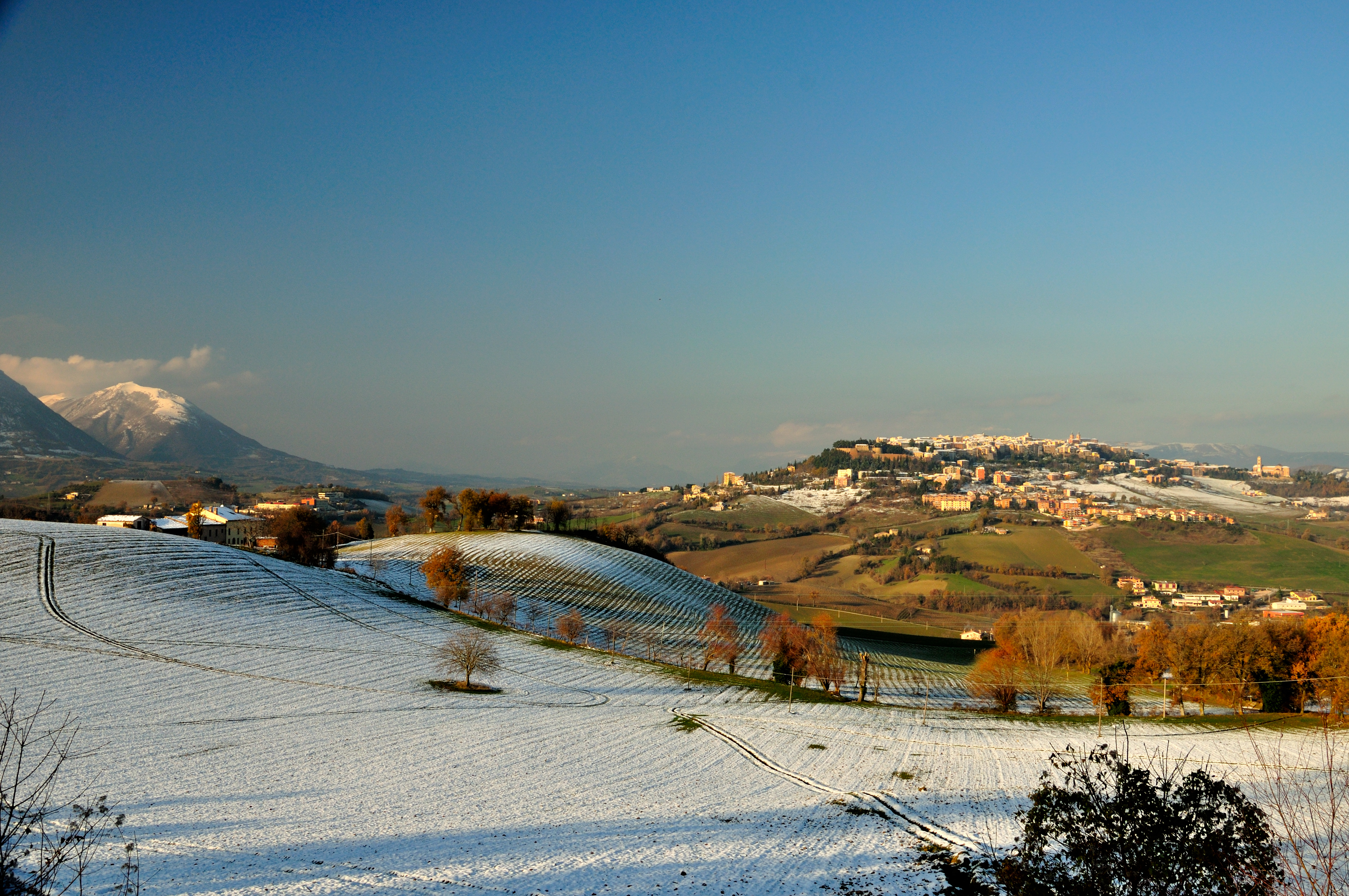 Camerino city winter landscape.